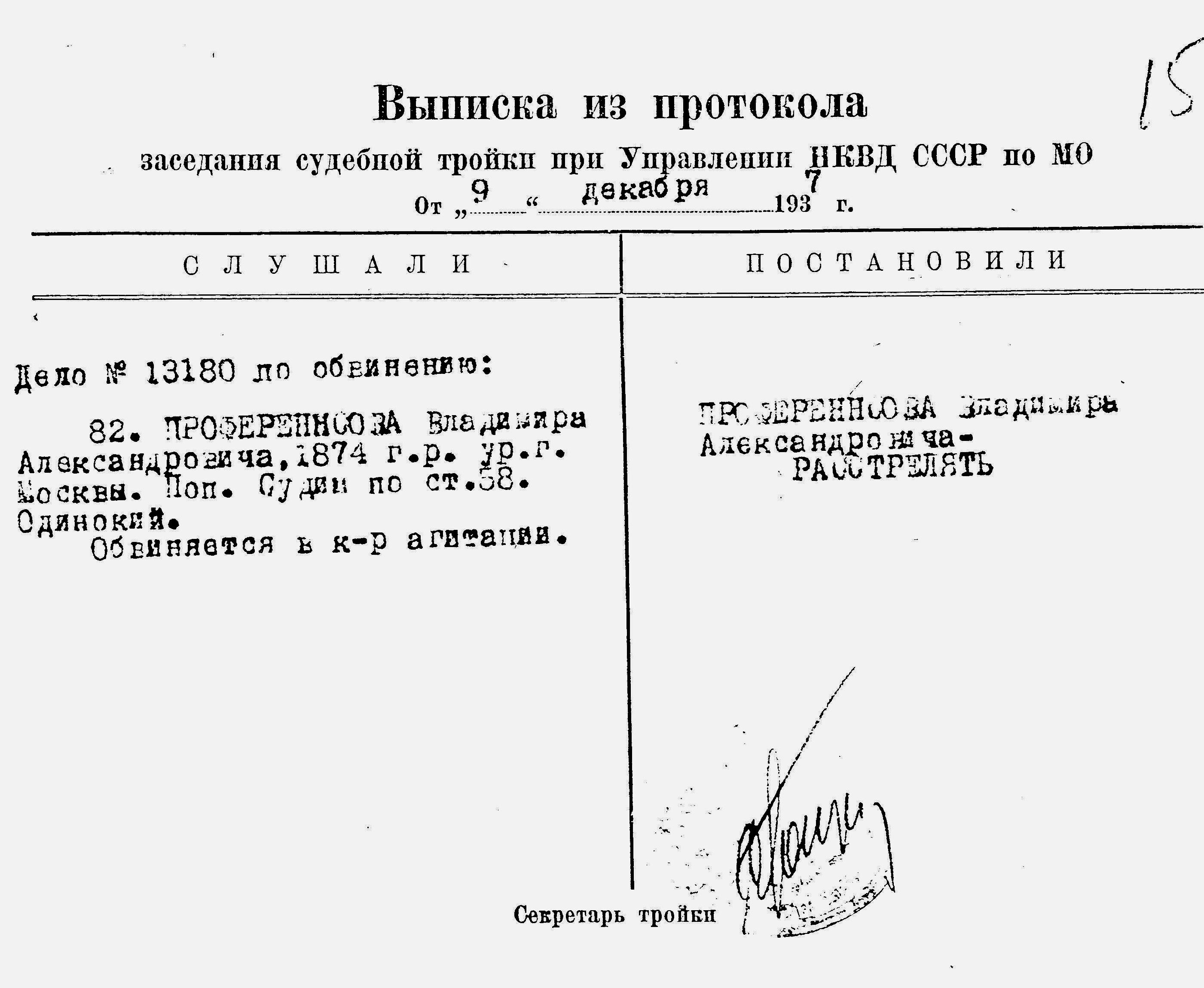 Vladimir Proferansov